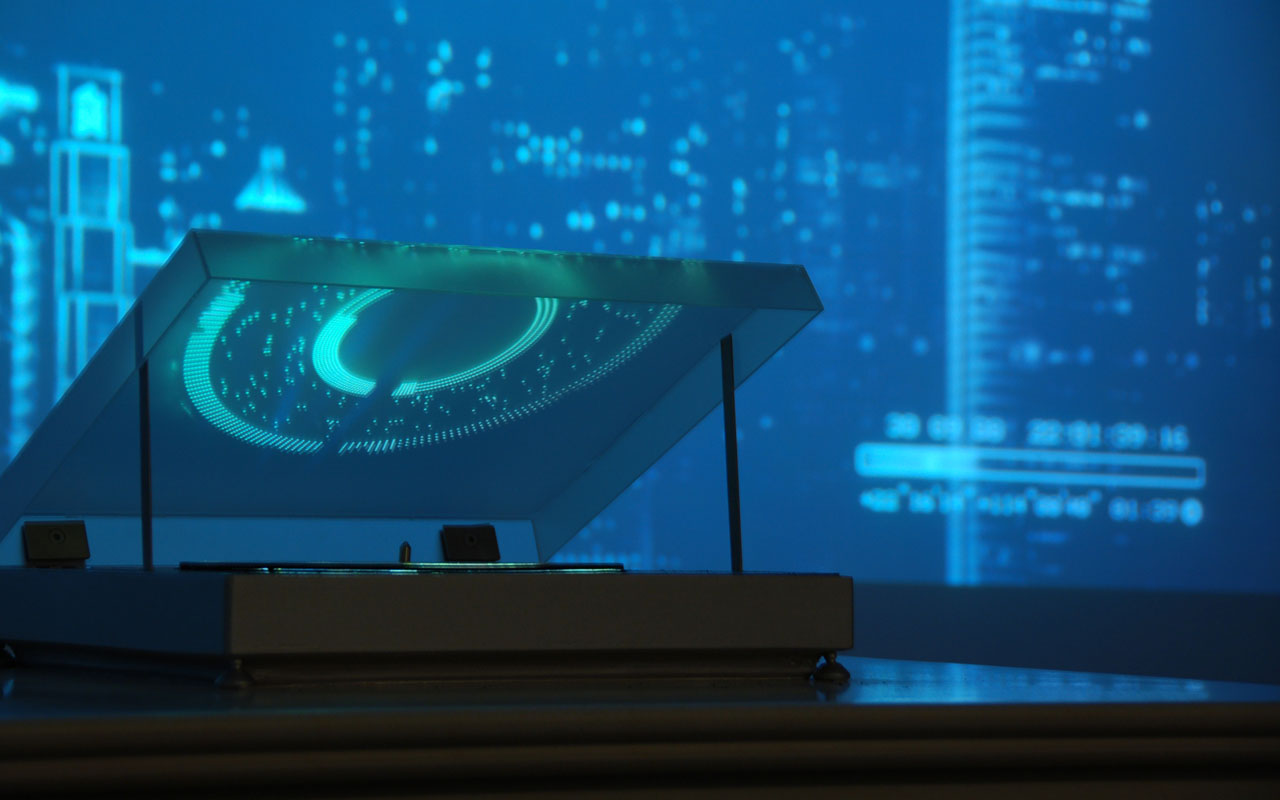 View of artwork ' Record: Light from +22° 16’ 14” +114° 08’ 48” ', Osage Gallery